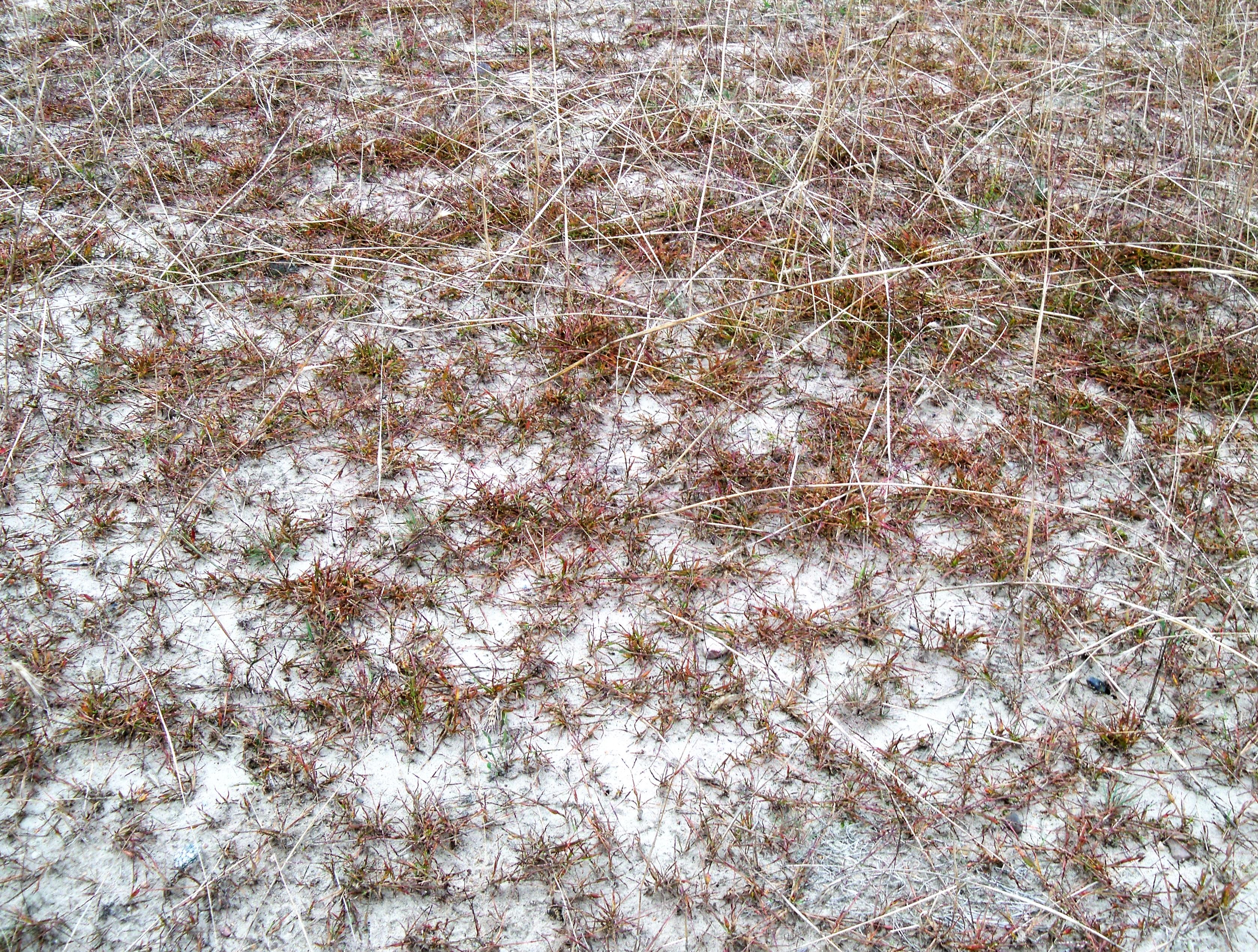 Crabgrass Digitaria ischaemum in Poland